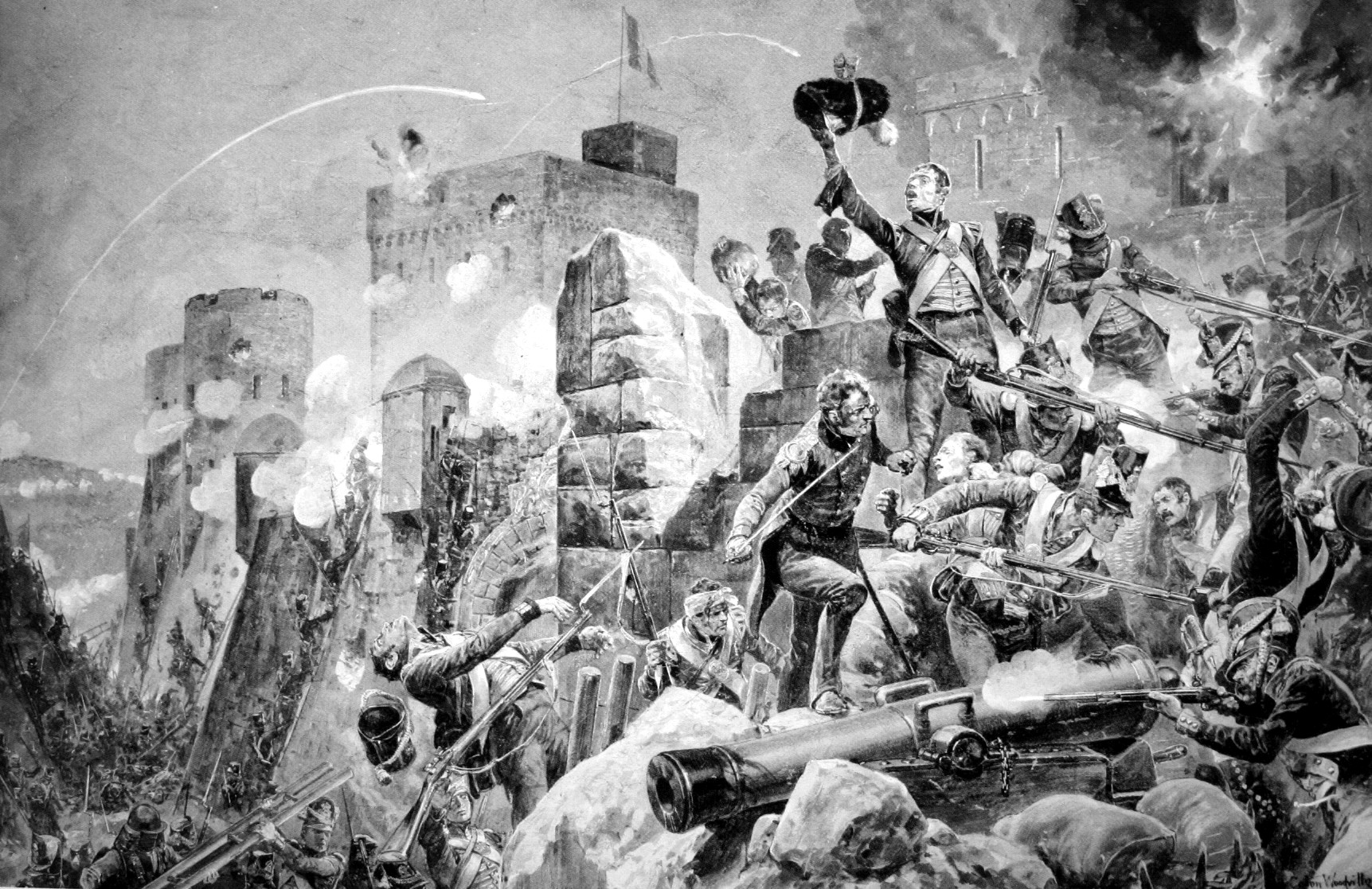 "The Devil's Own" 88th Regiment at the Siege of Badajoz. Watercolour en grisaille by Richard Caton Woodville Jr. (1856-1927)